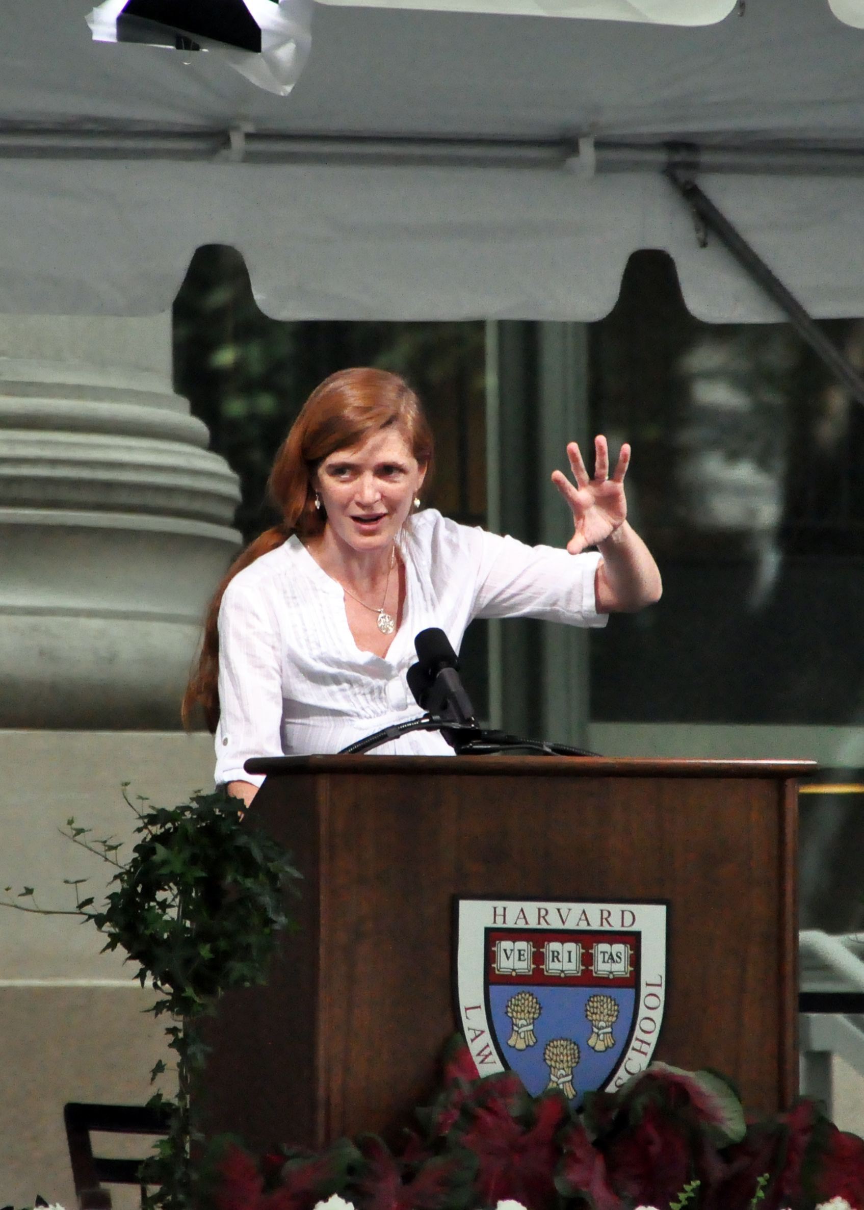 Samantha Power Harvard Law Class Day 2010